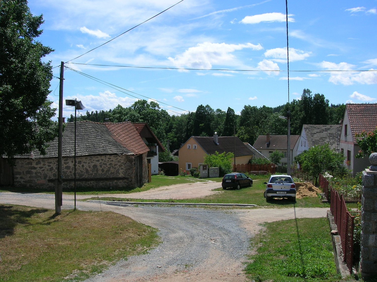 Třebíč-Pocoucov West.